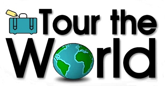 Logo of the Tour the World TV show.